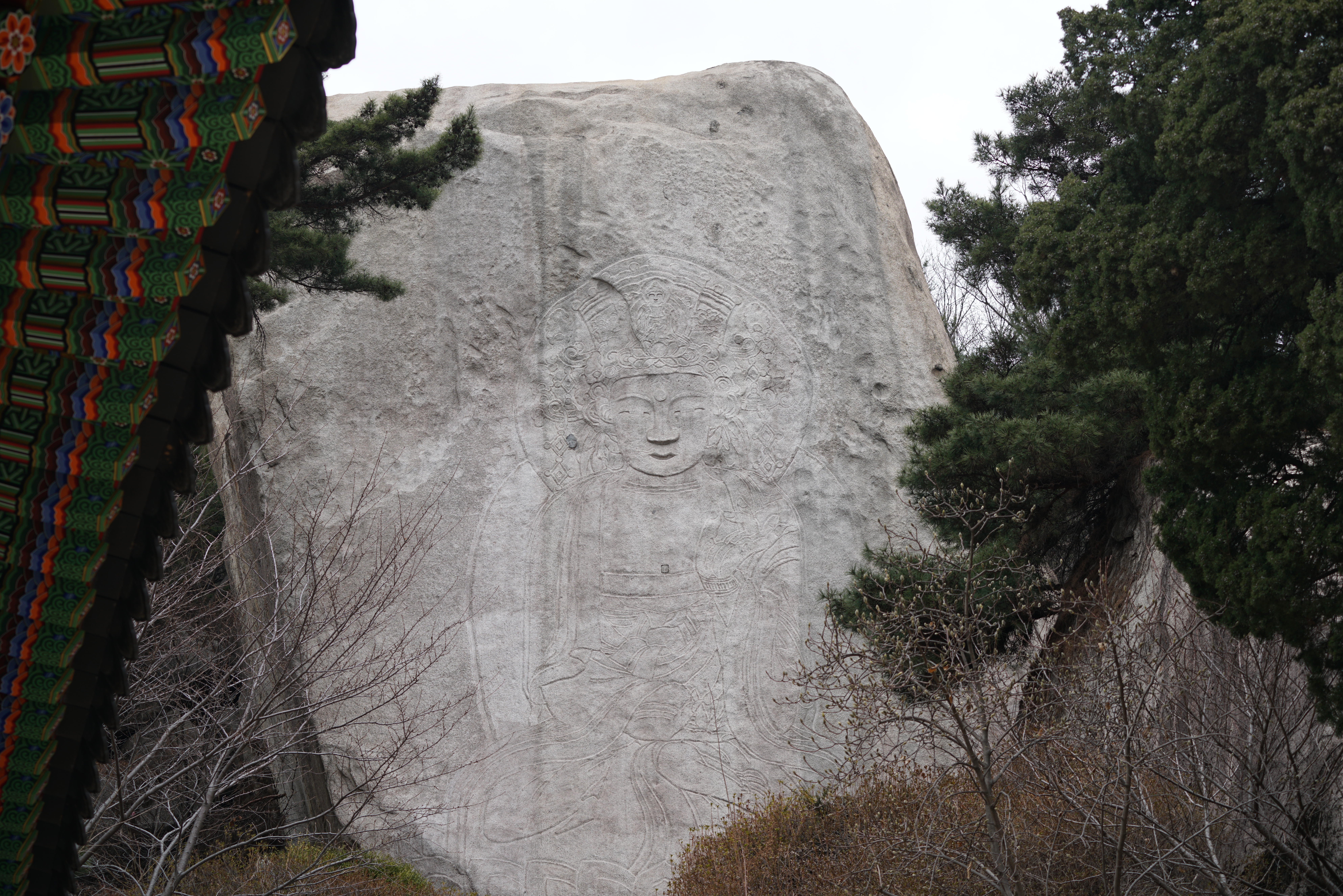 hakdoam kannon bodhisattva